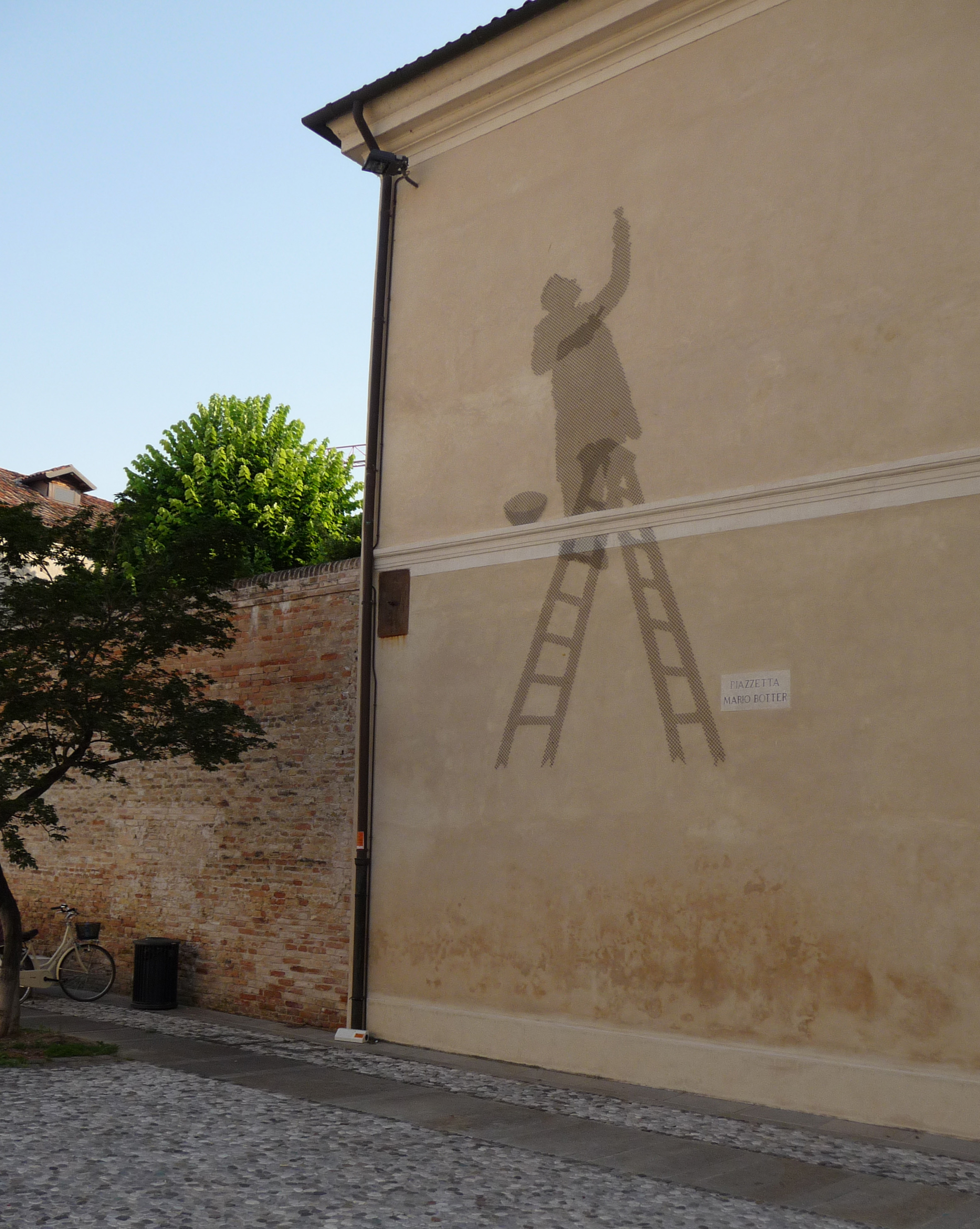 sculpture of Mario Botter (Memi Botter) in Piazzetta Mario Botter, Treviso (IT)